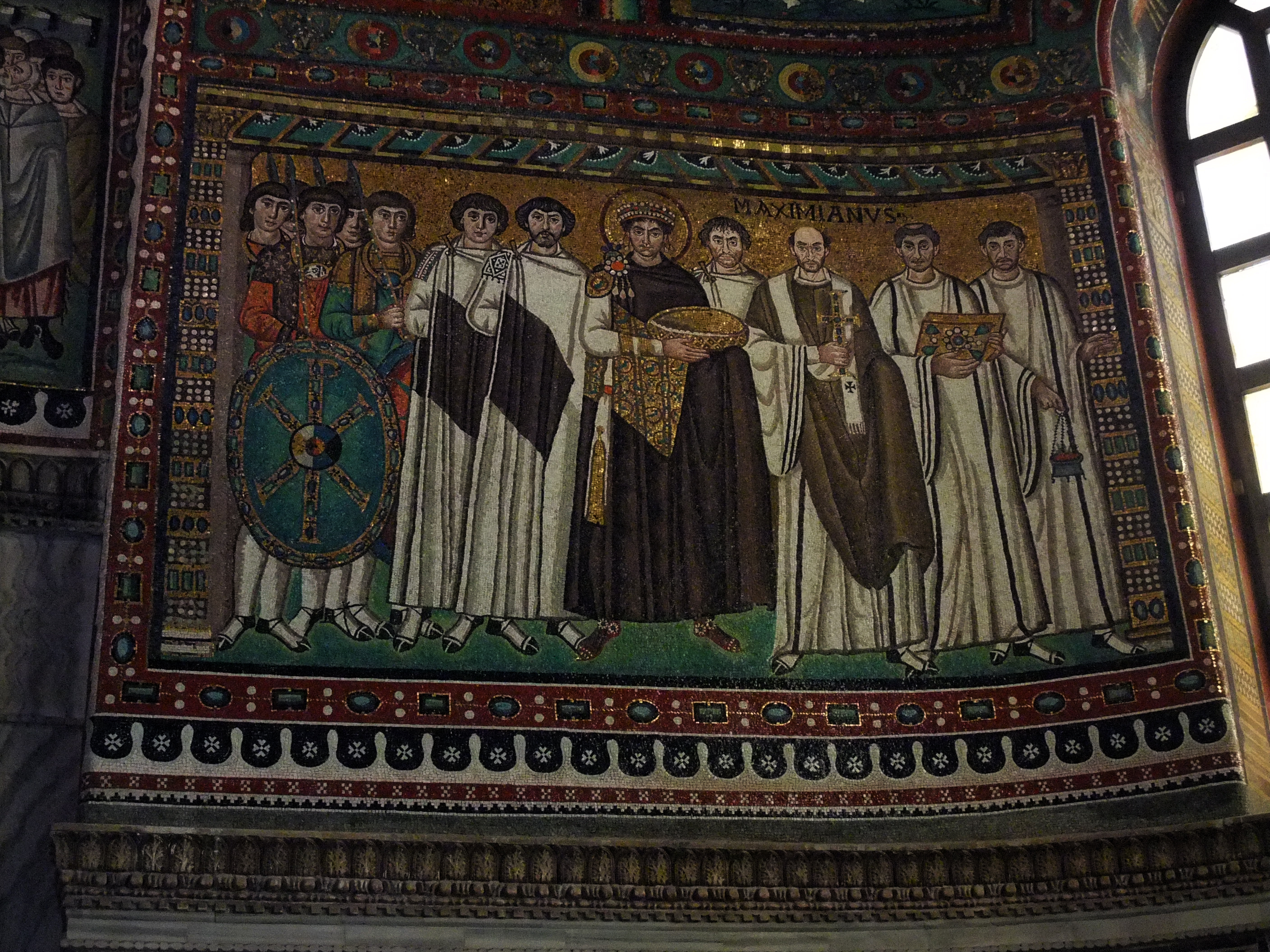 Mosaic from San Vitale in Ravenna, showing the Emperor Justinian and Bishop Maximian of Ravenna surrounded by clerics and soldiers